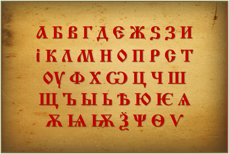 Early Cyrillic alphabet